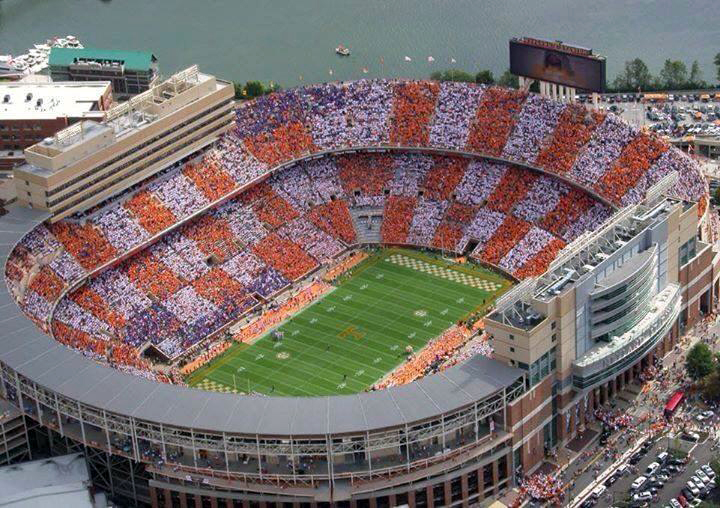 Aerial photograph of Neyland Stadium at the University of Tennessee and the Tennessee River. The fans in different sections are wearing orange and white colored shirts to emulate the endzone checkerboard pattern in the stands.